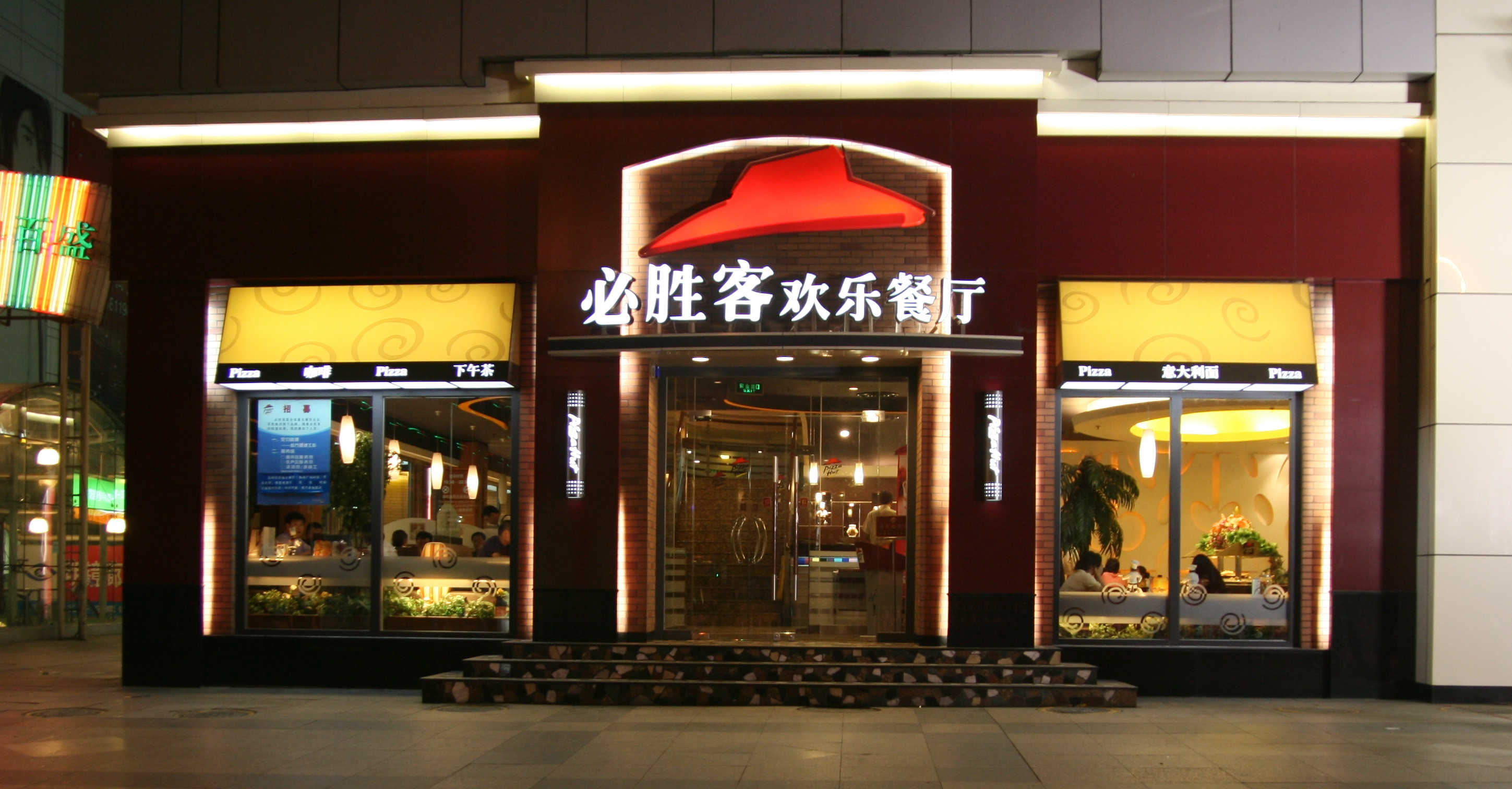 A Pizza Hut in Shenyang, Liaoning Province, China